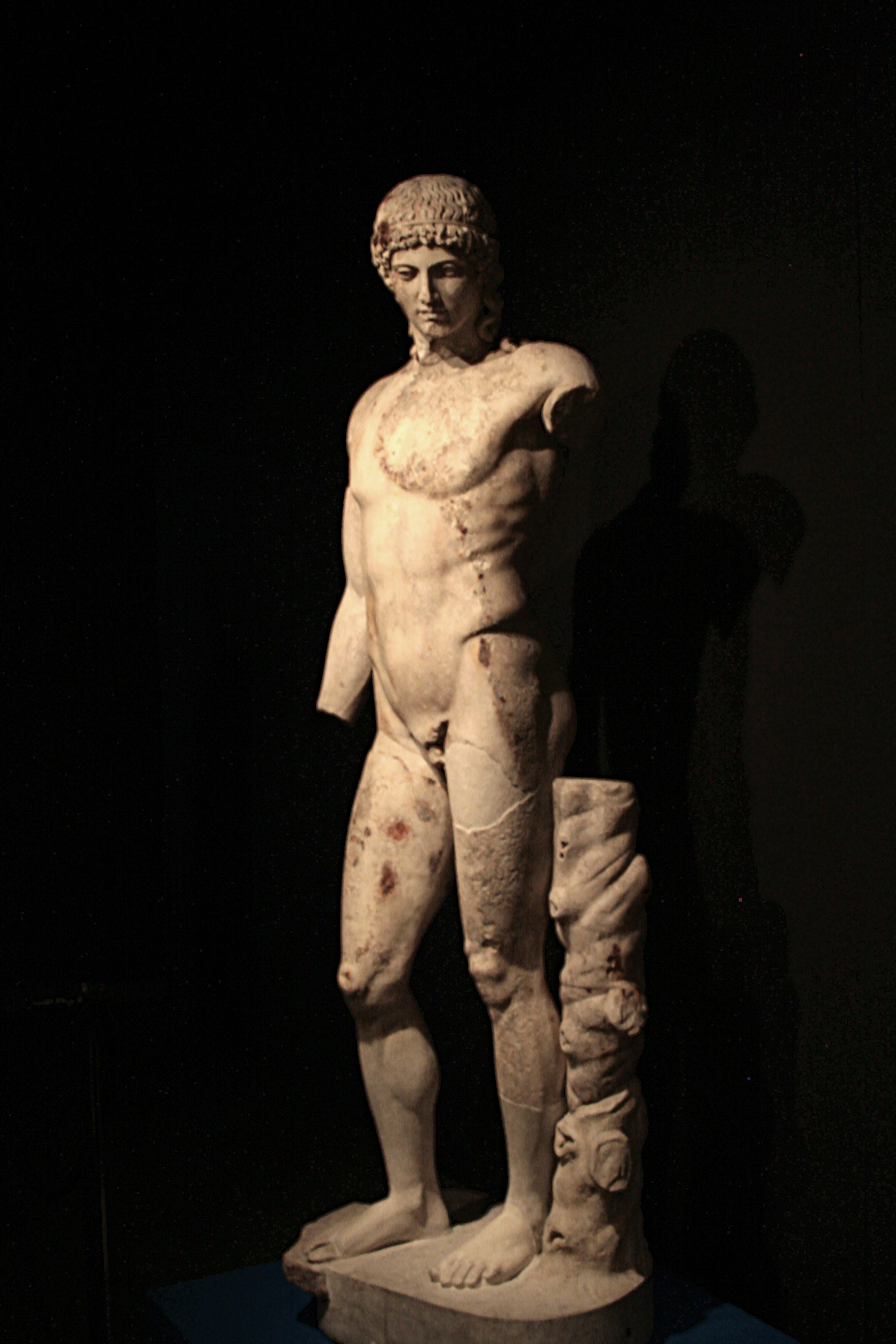 So-called “Tiber Apollo”. Marble, Roman copy after a Greek original dated ca. 450 BC, reign of Hadrian or Antoninus (117–195 CE).